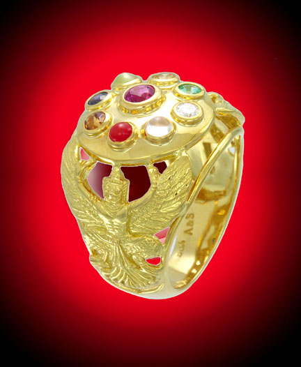 A Navaratna ring. My creation to public domain